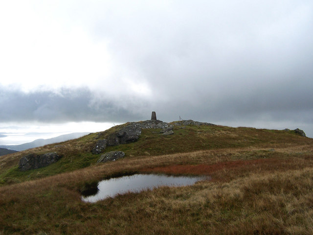 The summit of Beinn Ruadh. The trig point marks the 664m summit.